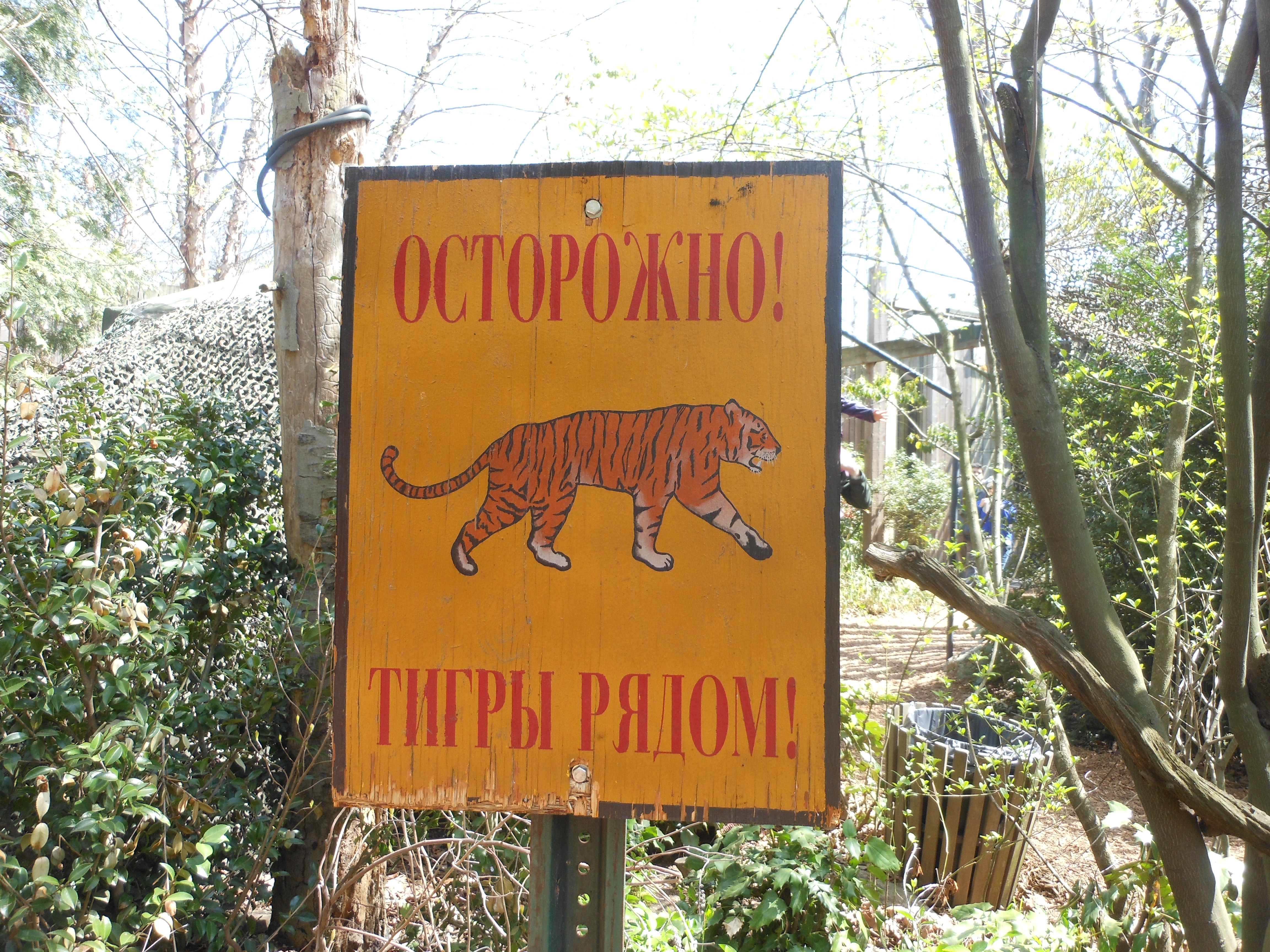 A sign about Siberian Tigers in Russian